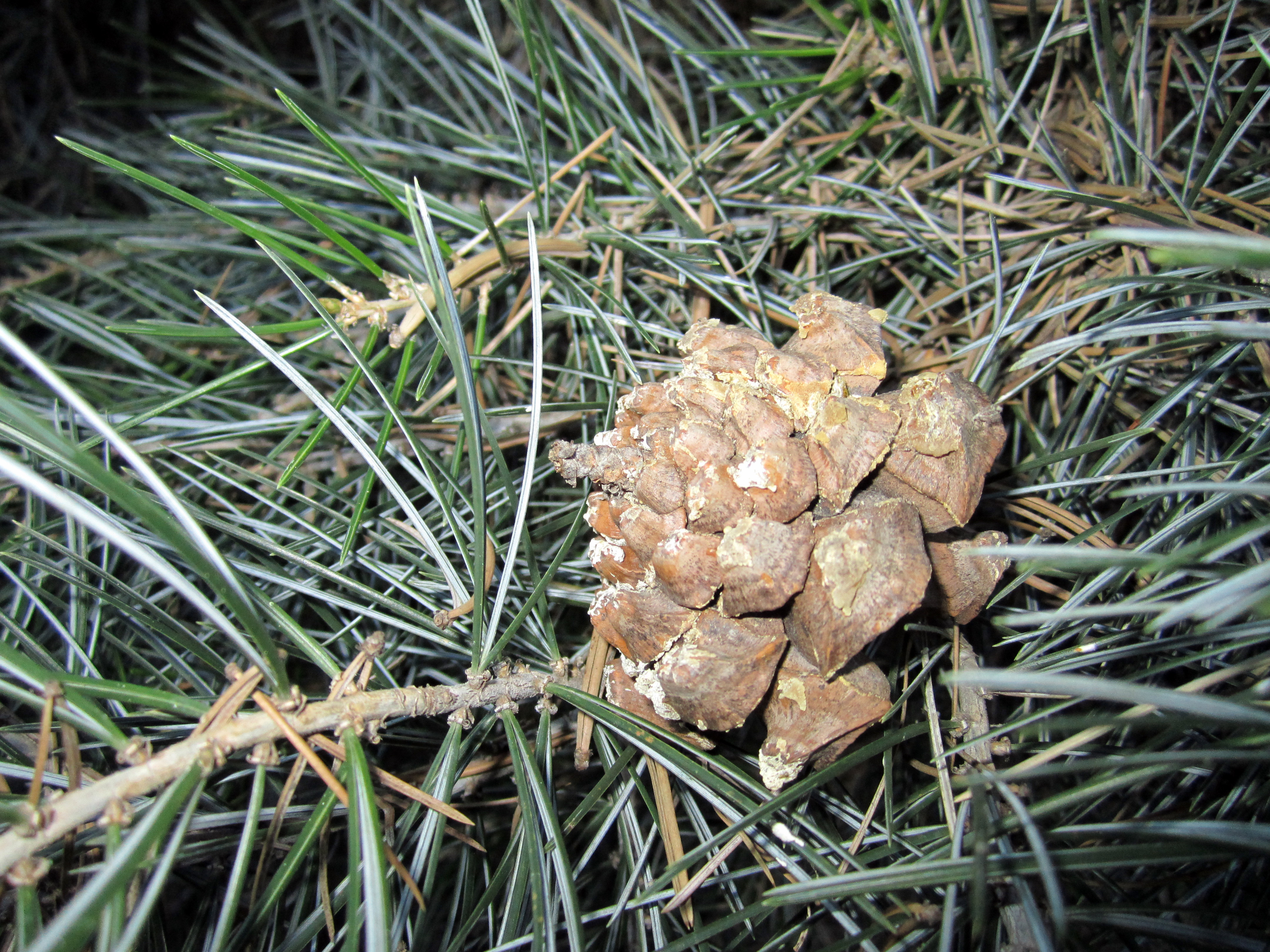 Pinus quadrifolia (Four-needled Pinyon), foliage and detached cone, cultivated at Rancho Santa Ana Botanical Garden, California